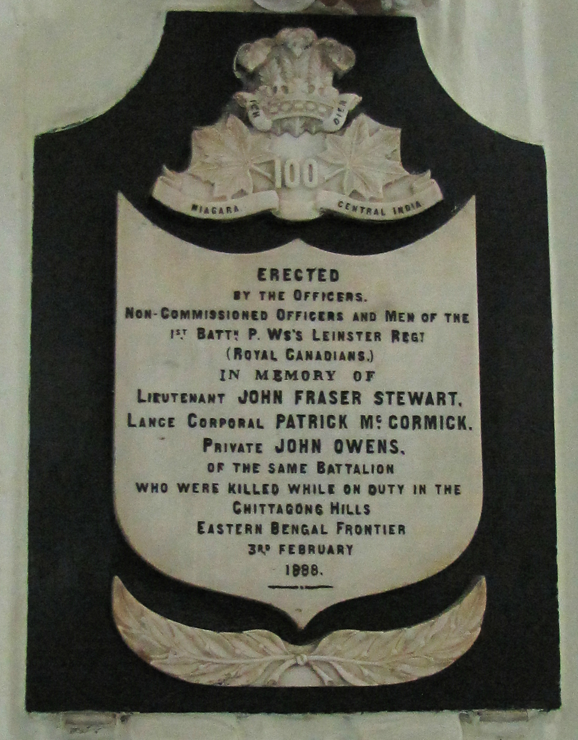 Commemorative Plaque in St Peter's Anglican Church, Fort William, Kolkata (India)